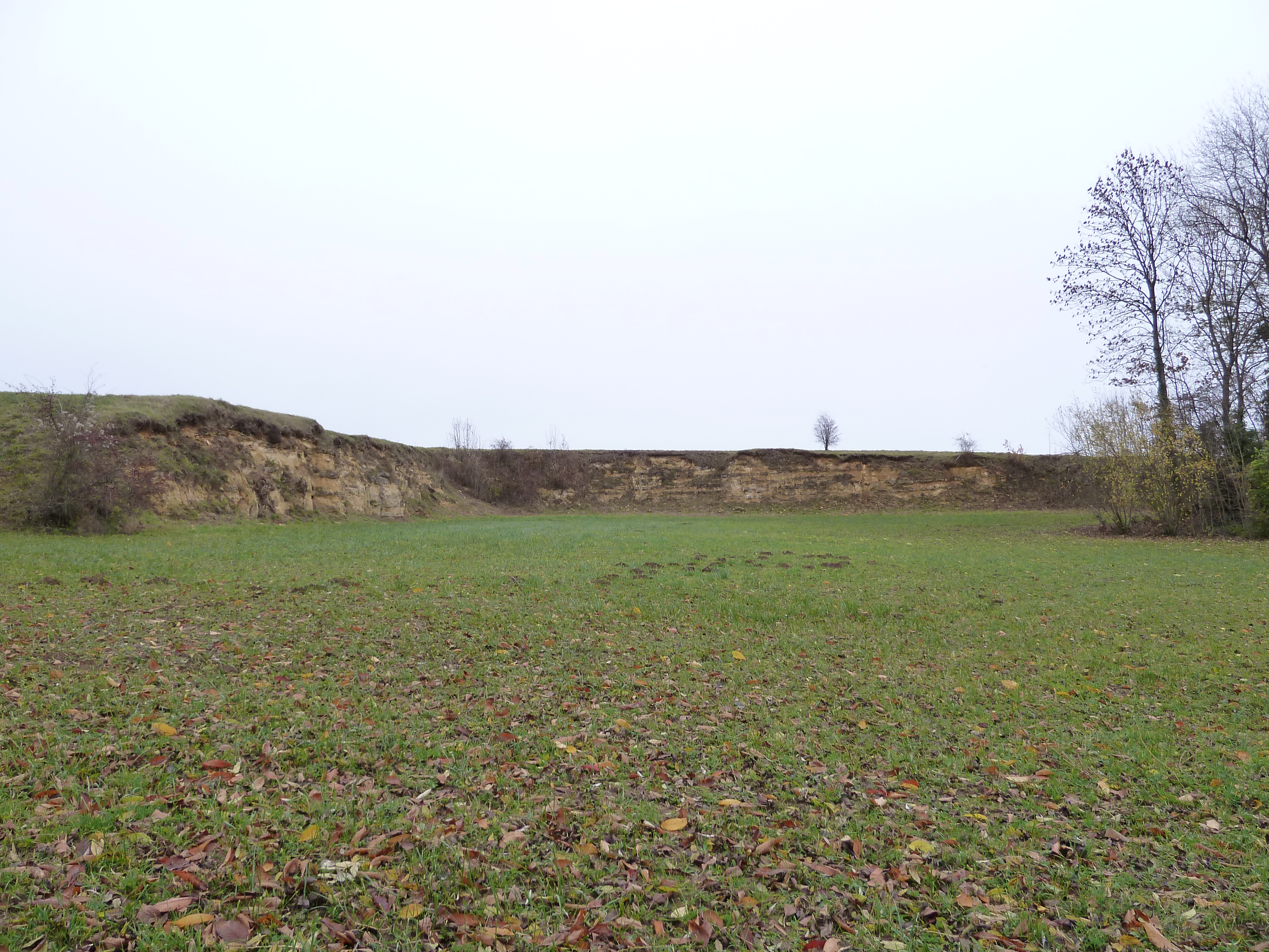 Mining at Kalkovenweg, Voerendaal, Limburg, the Netherlands